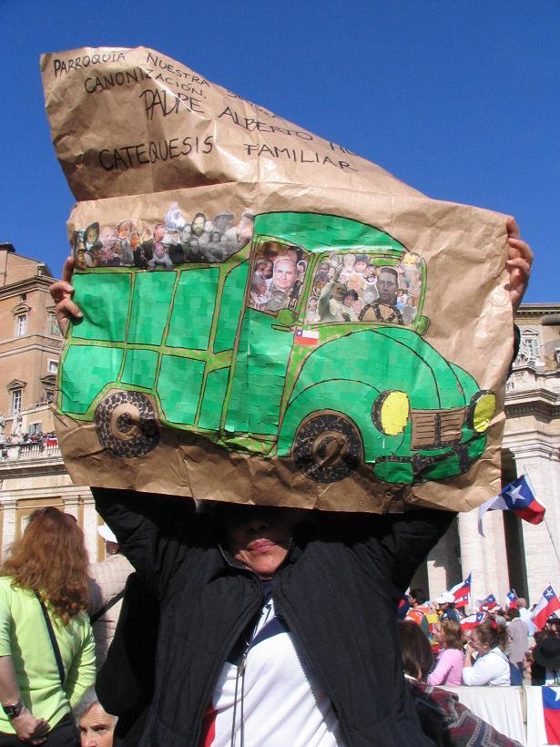 A Chilean woman holds a poster of Saint Alberto Hurtado at the canonization mass held October 23, 2005